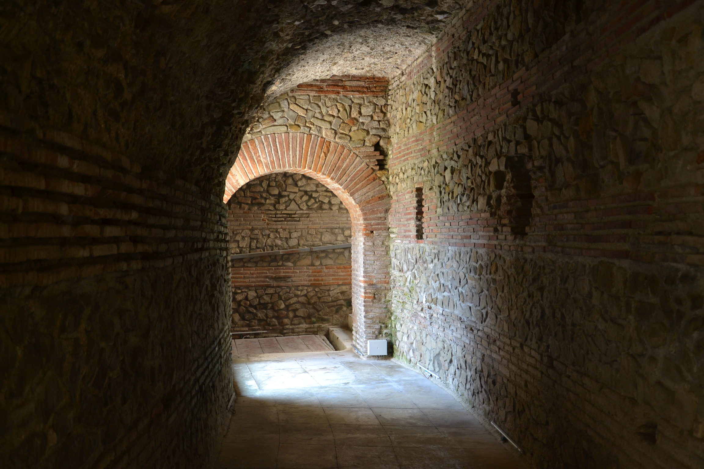 Durrës Amphitheatre